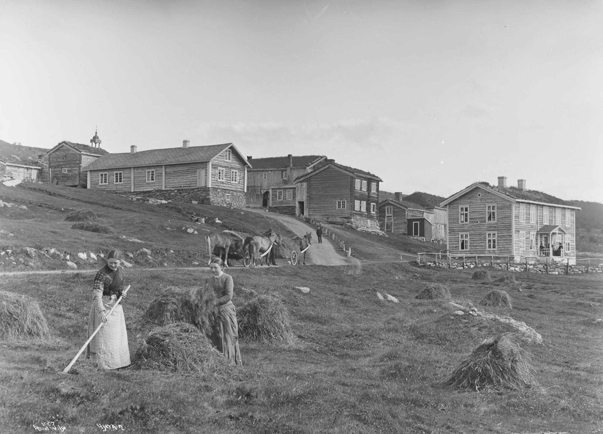 Dovrefjeld Hjerkin Skydsstation